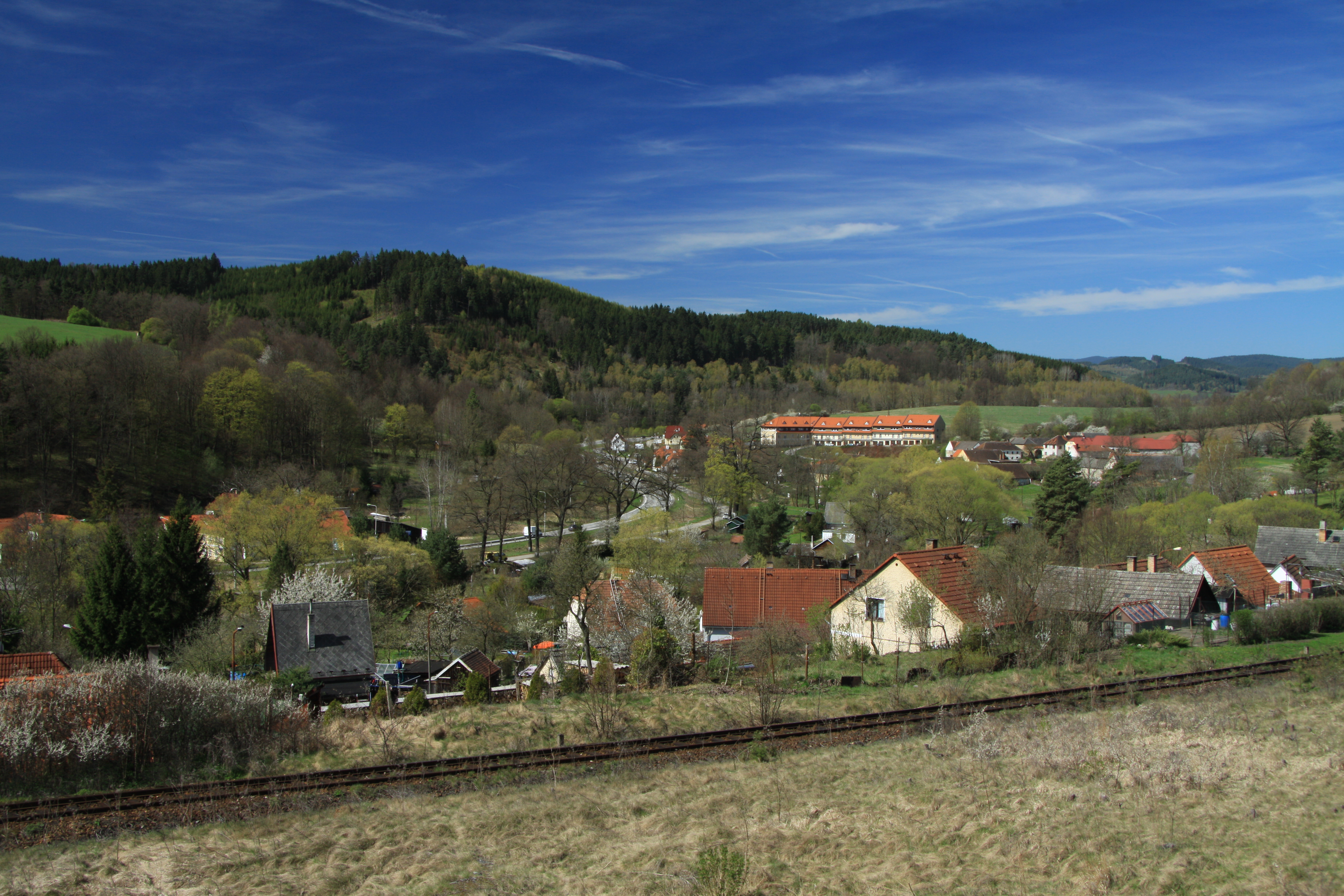 Nové Dobrkovice, part of Český Krumlov town, District Český Krumlov, Czech Republic - Google Maps - Google Earth